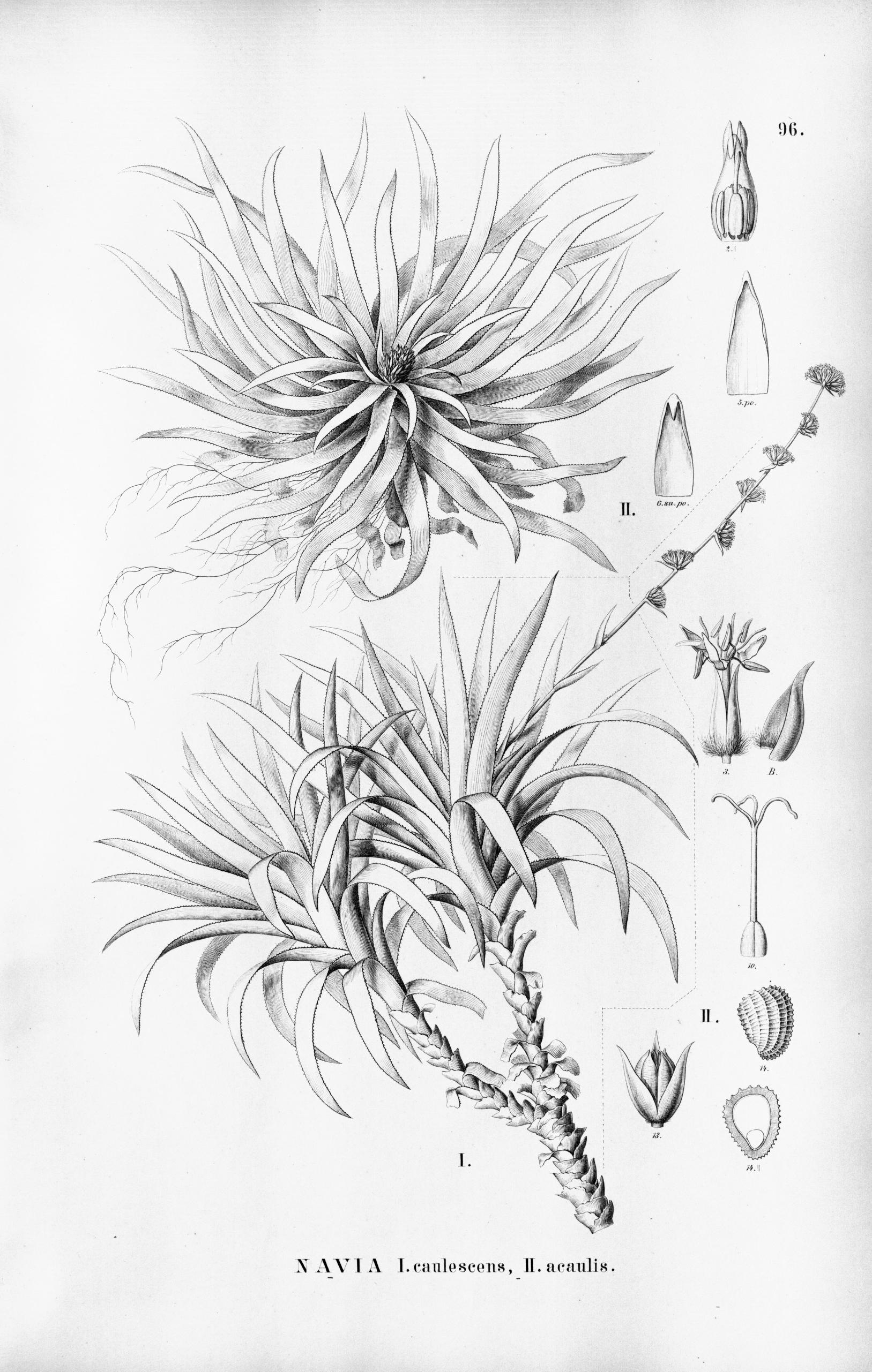 Navia caulescens, type species of the bromelian genus Navia